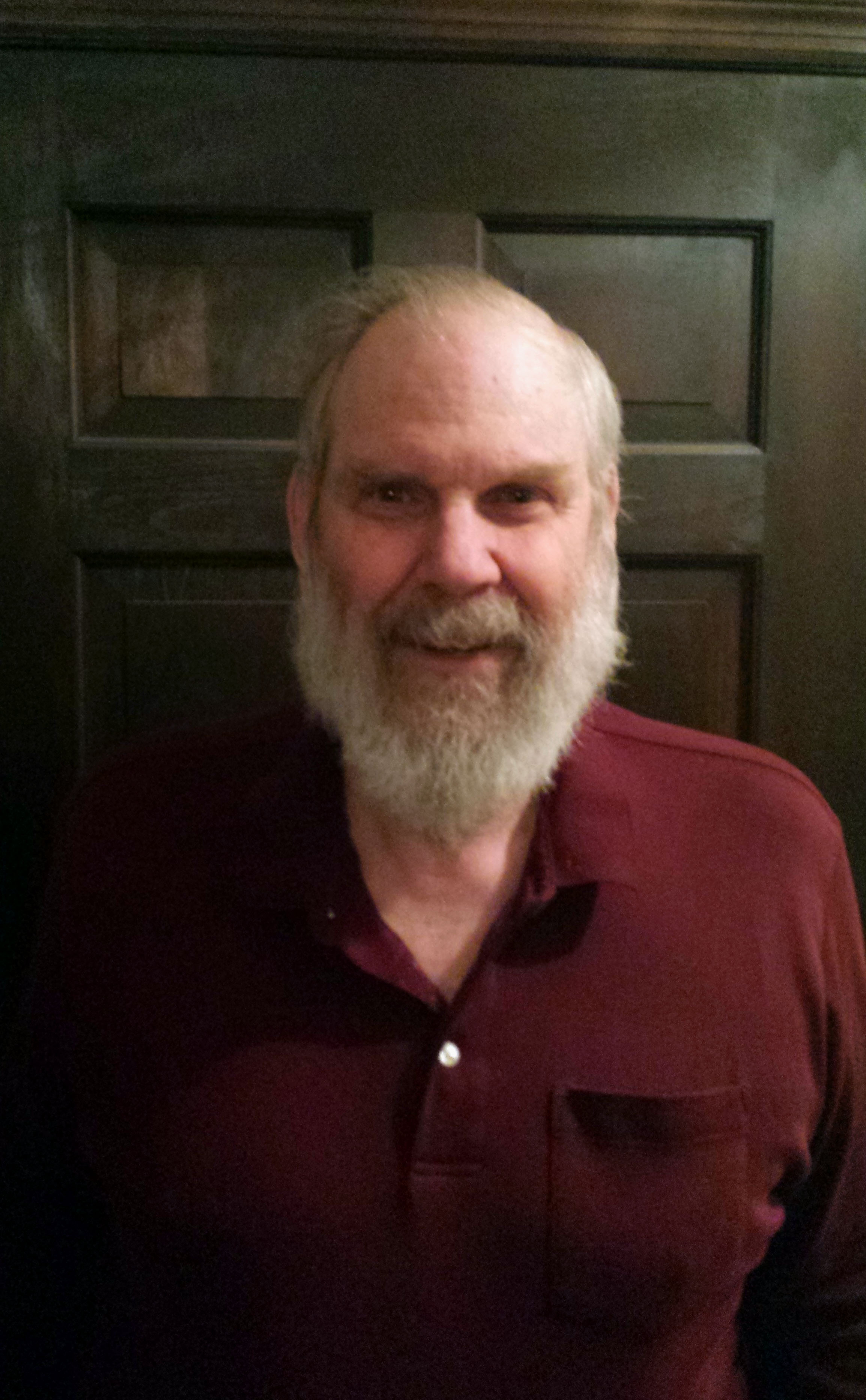 Photo of Stefan Burr, taken on February 20th, 2015.